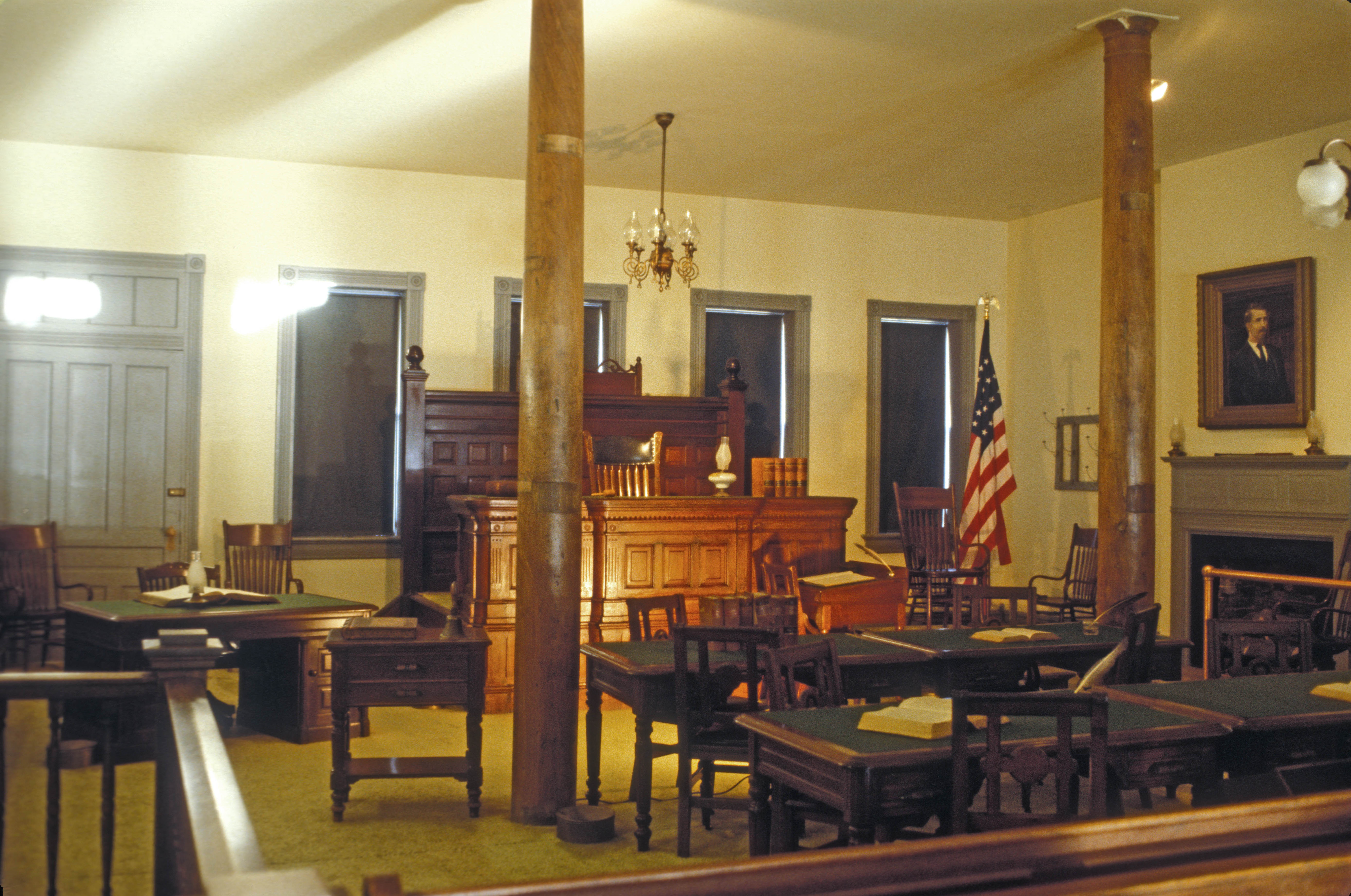 Judge Isaac Parker, the "Hanging Judge" HELD COURT HERE FOR 21 YEARS. HE WAS RESPONSIBLE FOR THE WESTERN HALF OF ARKANSAS AND THE INDIAN TERRITORY OF PRESENT-DAY OKLAHOMA. HE HELD 13,000 TRIALS IN THIS ROOM RESULTING IN CONVICTIONS OF 9,000. HE SENTENCED 160 TO DEATH BUT ONLY 79 WERE HANGED. NO APPEAL WAS POSSIBLE FOR THE FIRST 14 YEARS. HE BROUGHT LAW AND ORDER TO THE LAWLESS INDIAN TERRITORY. THIS COURTROOM IS INSIDE THE BARRACKS BUILDING OF THE FORT SMITH NATIONAL HISTORIC SITE.